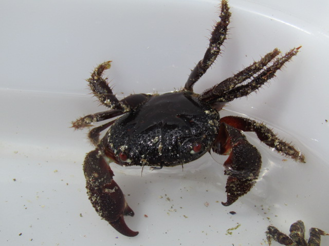 Eriphia smithii caught at Manazuru